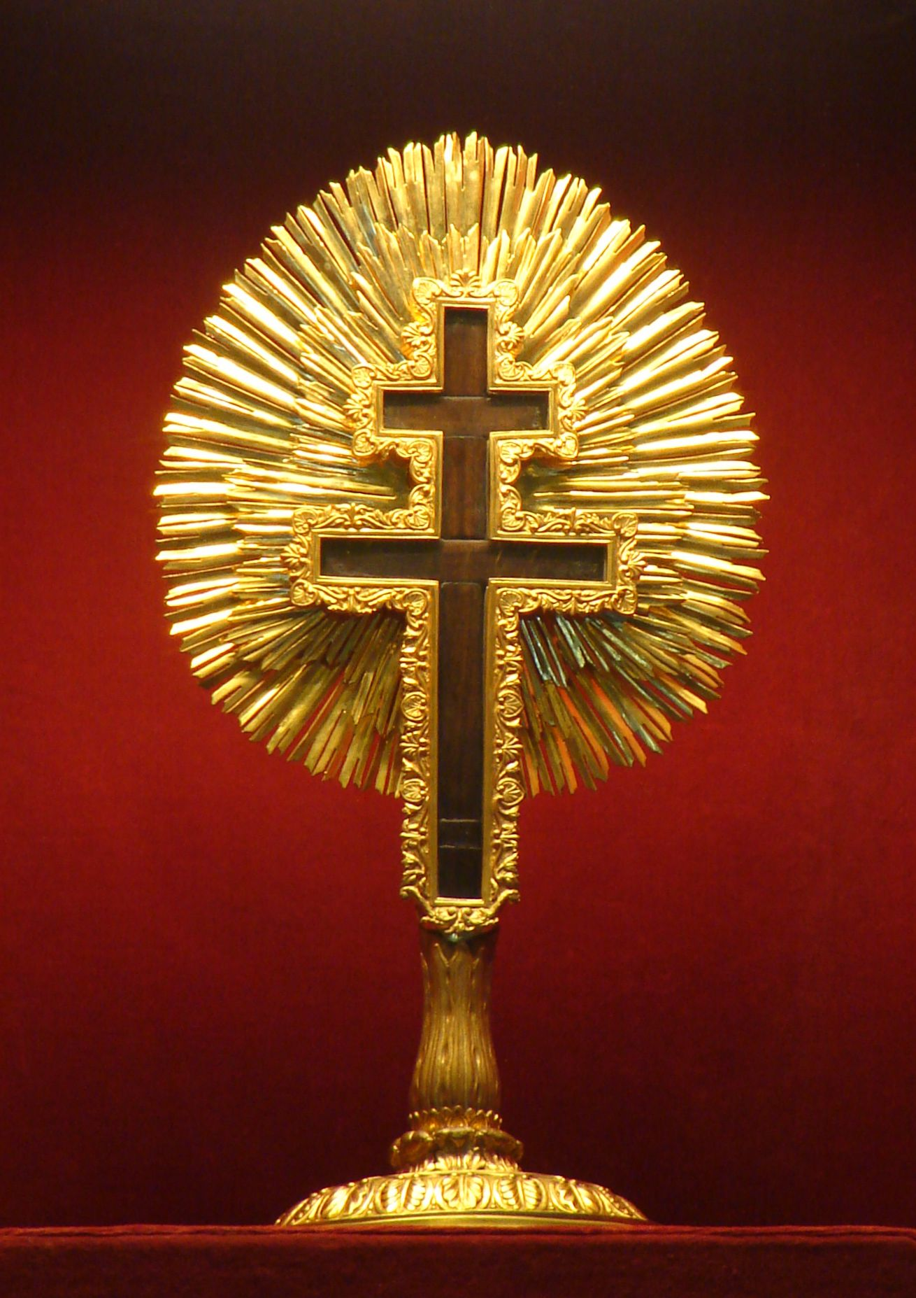 Relic of the True Cross in the Cistercian monastery Heiligenkreuz, Lower Austria.